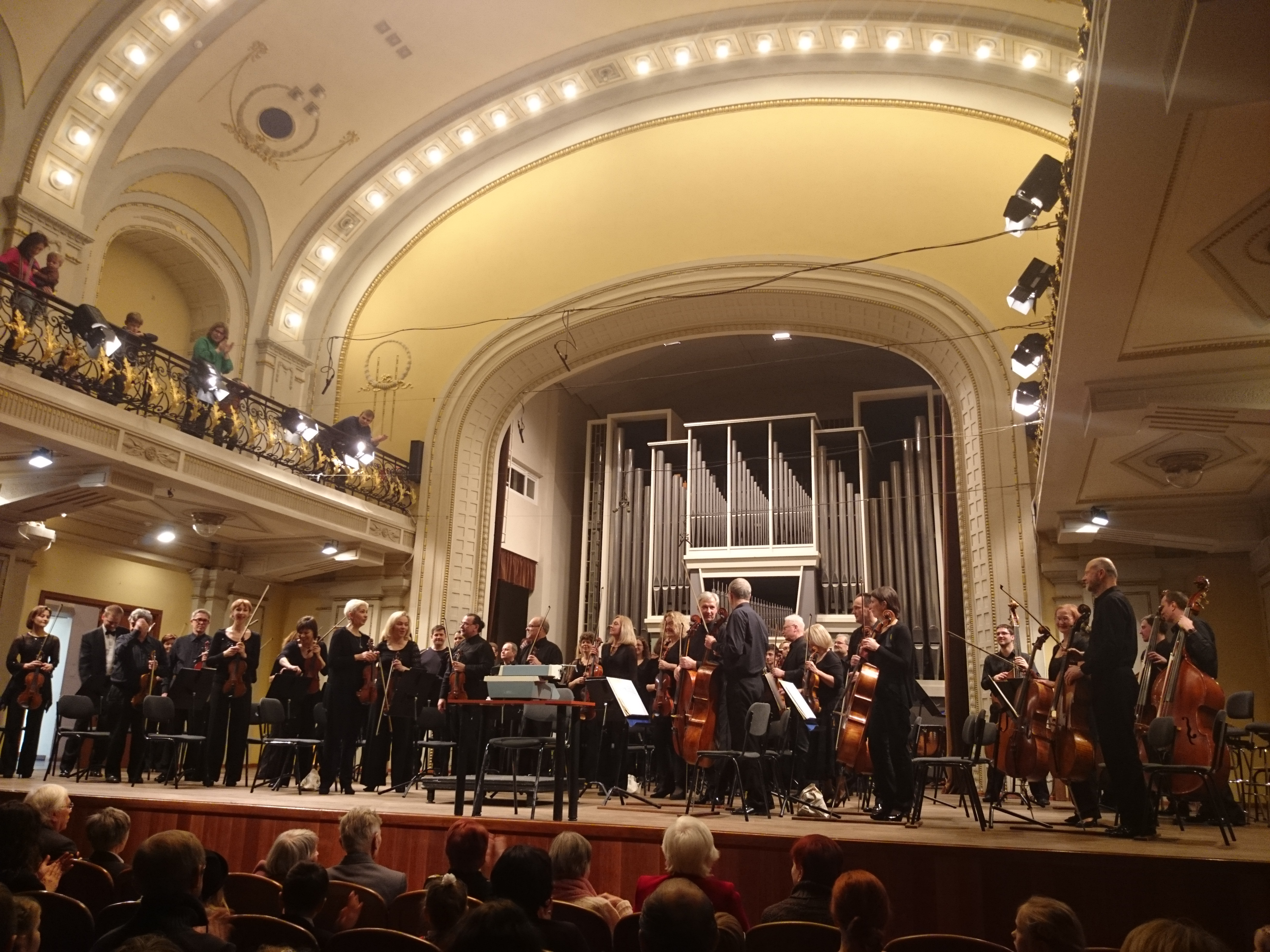 Lithuanian National Philharmony